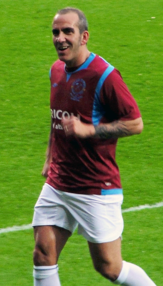 Former West Ham player, Paolo Di Canio playing at The Boleyn Ground in a testimonial game for West Ham coach, Tony Carr, May 2010